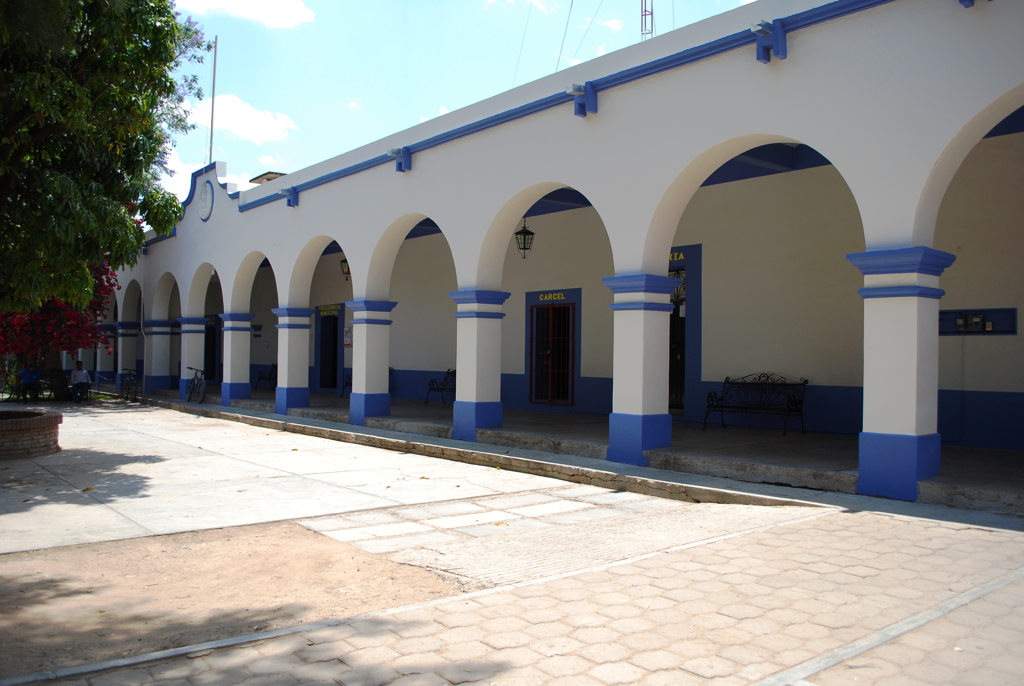 Municipal palace of San Martin Tilcajete, Oaxaca, Mexico